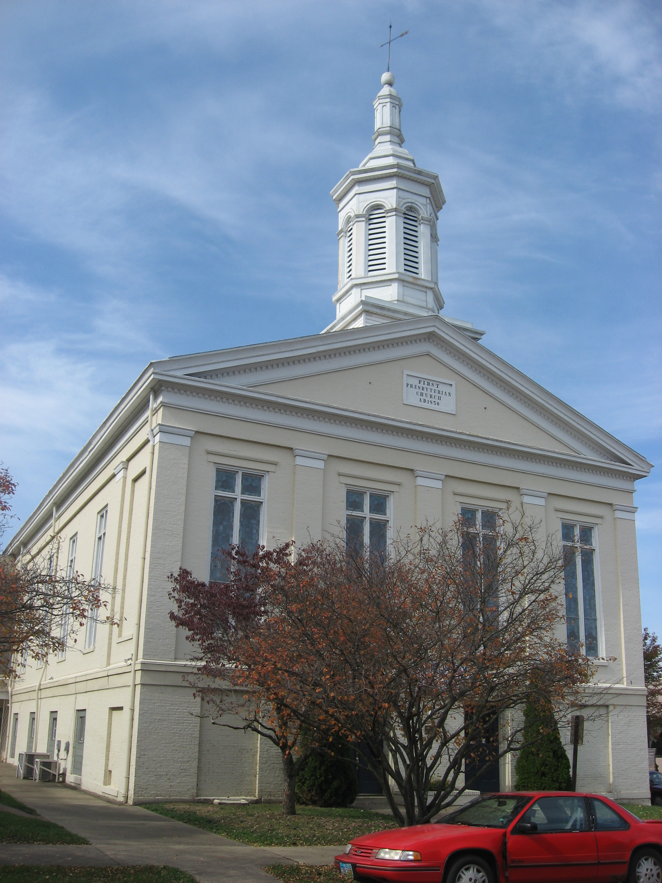 Front and southern side of First Presbyterian Church, located at 221 Court Street in Portsmouth, Ohio, United States. Built in 1849, it is listed on the National Register of Historic Places.